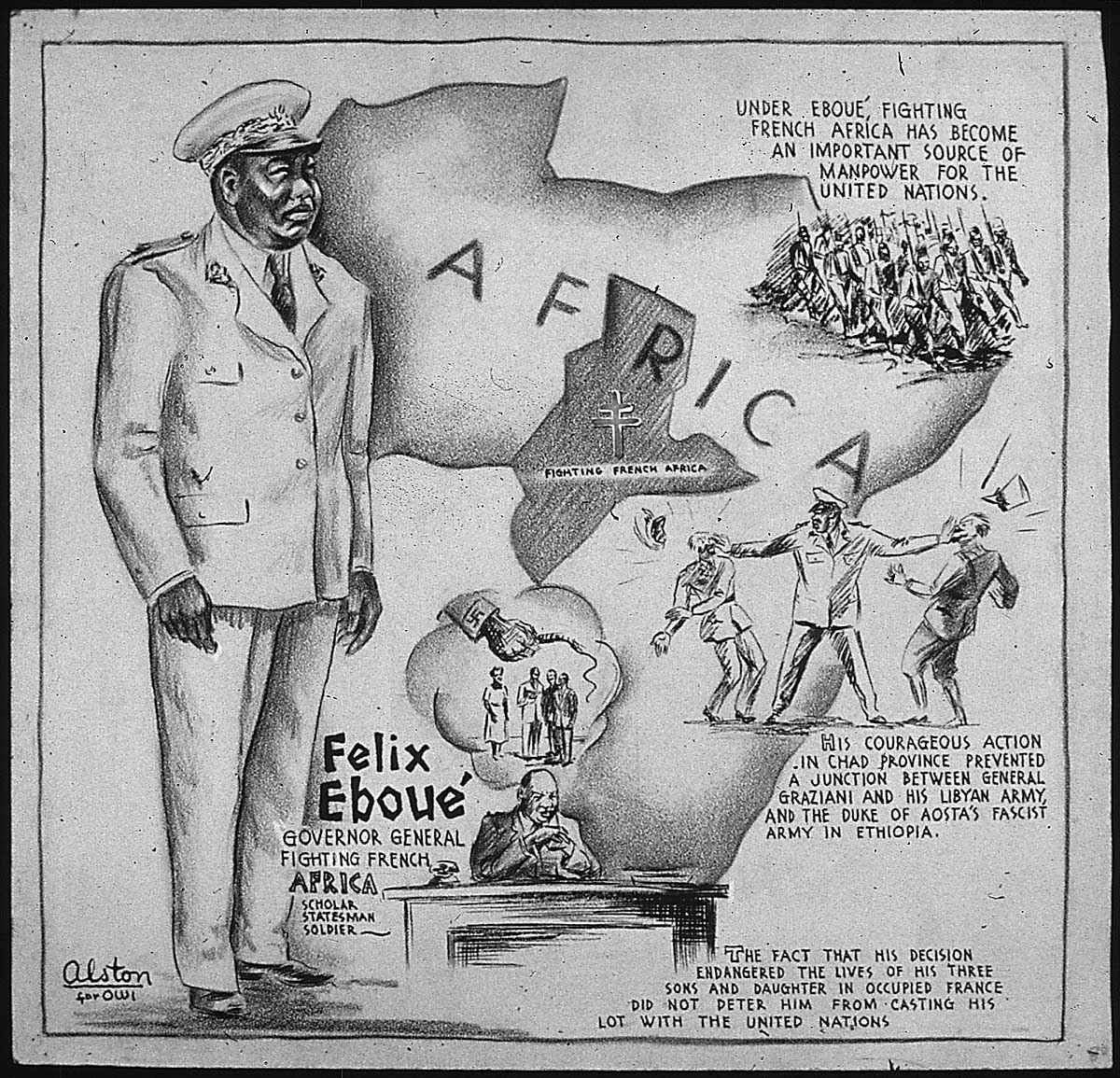 FELIX EBOUE' GOVENOR GENERAL FIGHTING FRENCH AFRICA - SCHOLAR, STATESMAN, SOLDIER., 1943